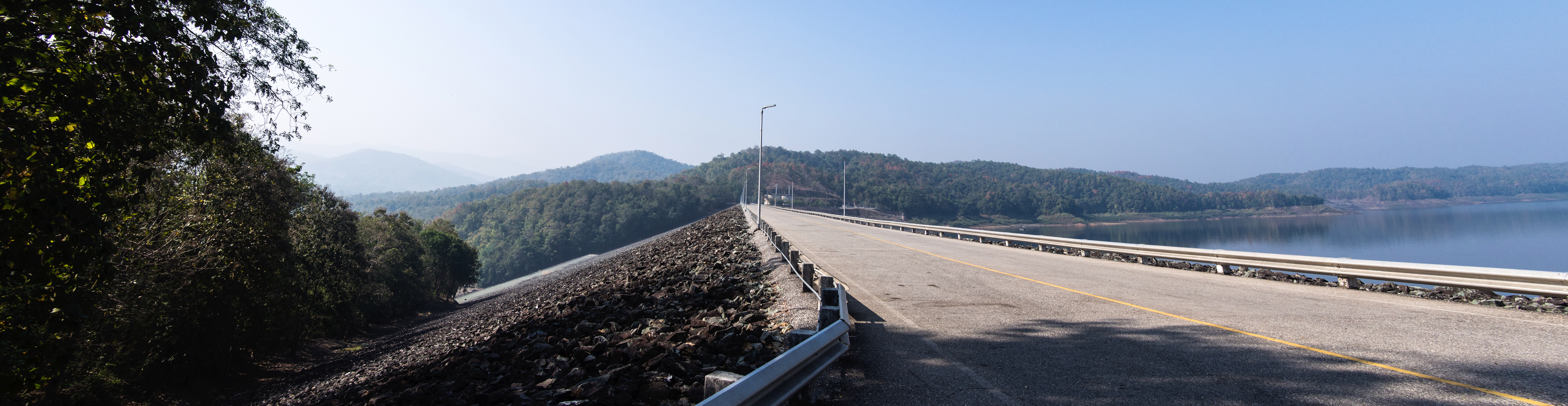 Panorama of the Sirikit Dam, with on the right, the lake created from the Nan River by the dam. This image was created with Hugin